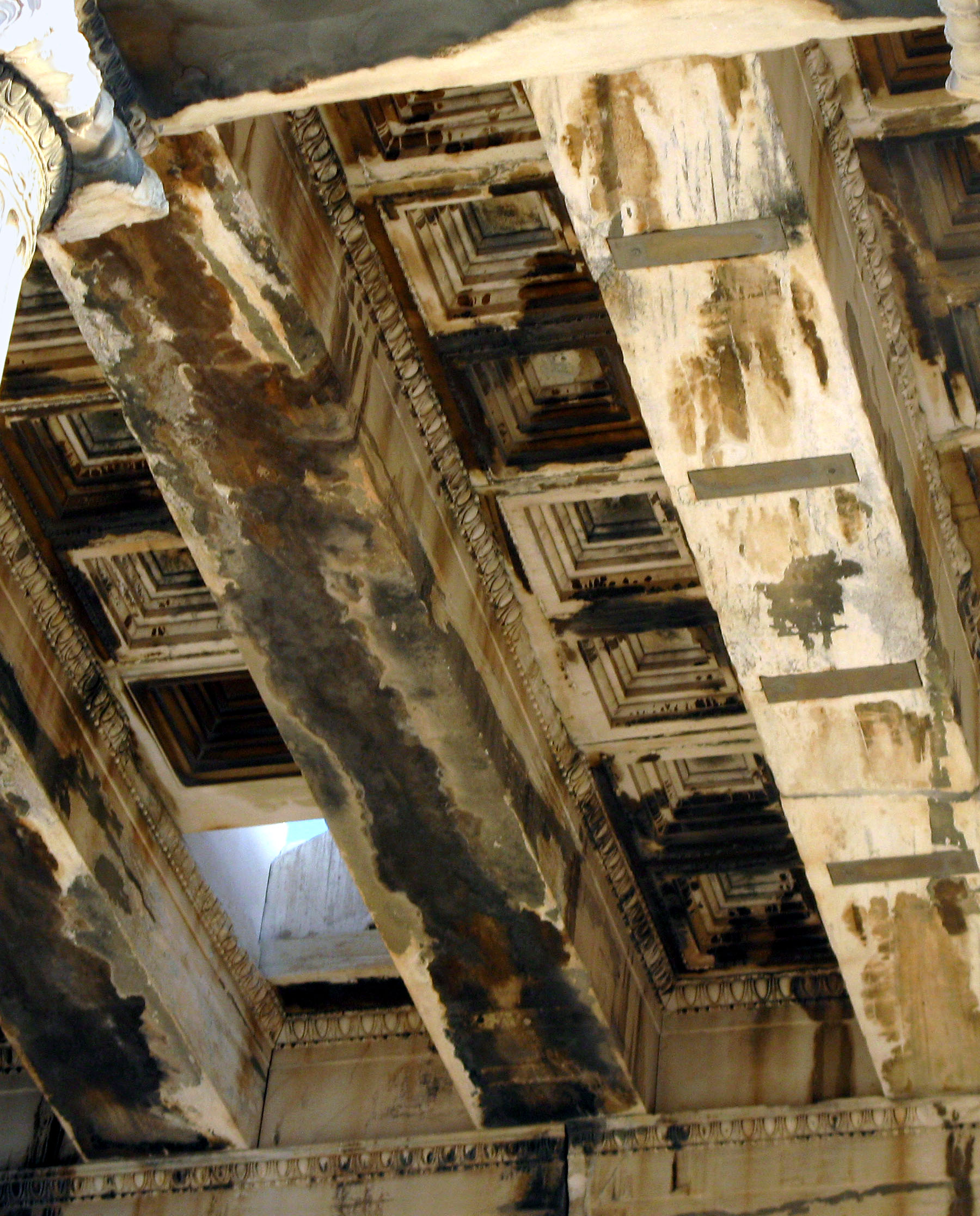 Coffered ceiling of Erechtheum. Acropolis of Athens.